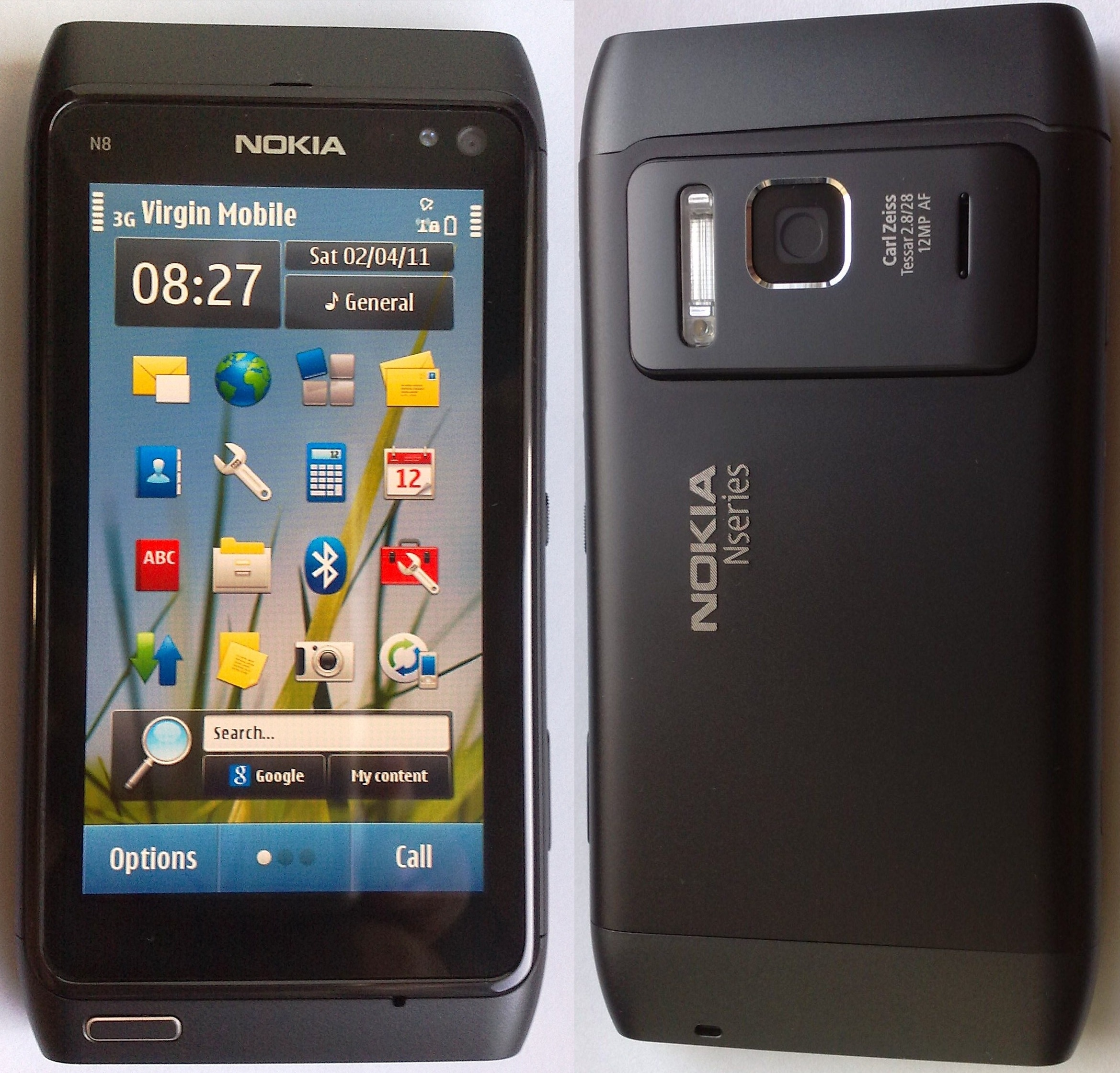 Nokia N8